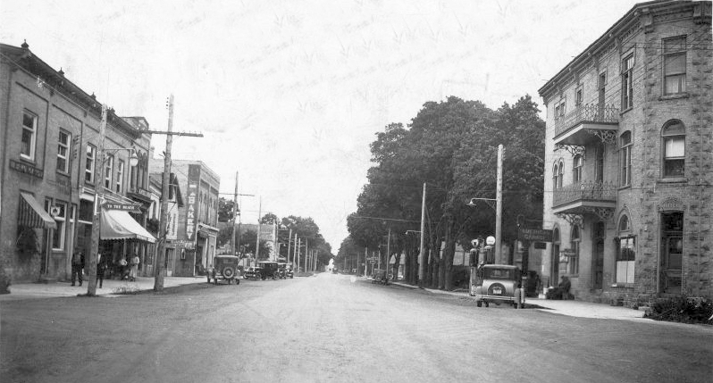 This photographic post card features Goderich Street, Port Elgin. There are buildings, sidewalks, utility poles and cars parked on each side of the street. Visible signs include "Bakery" and "To the Beach." The card bears a white handprint title: "North End Business Block, Port Elgin, Ontario". On the reverse, a handwritten message is addressed to Miss Dorothy Bulmer, 14 Hall Ave., Windsor, Ont. It is postmarked Port Elgin Ont. SP 13 1933. This item is part of the Krug family fonds, series 4, file 2 (Historical records and research - Bruce County postcards).